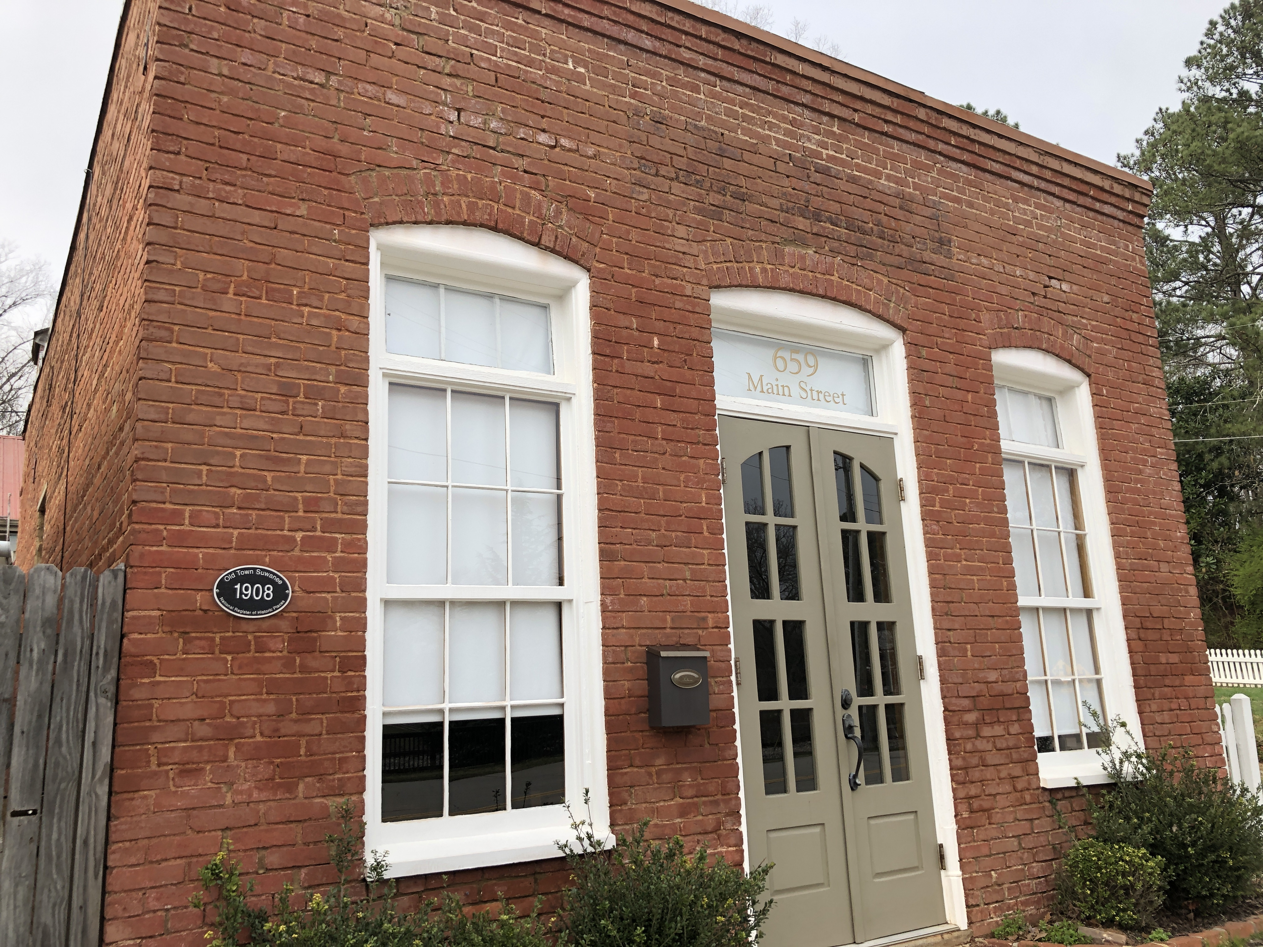 629 Main Street, Suwanee GA